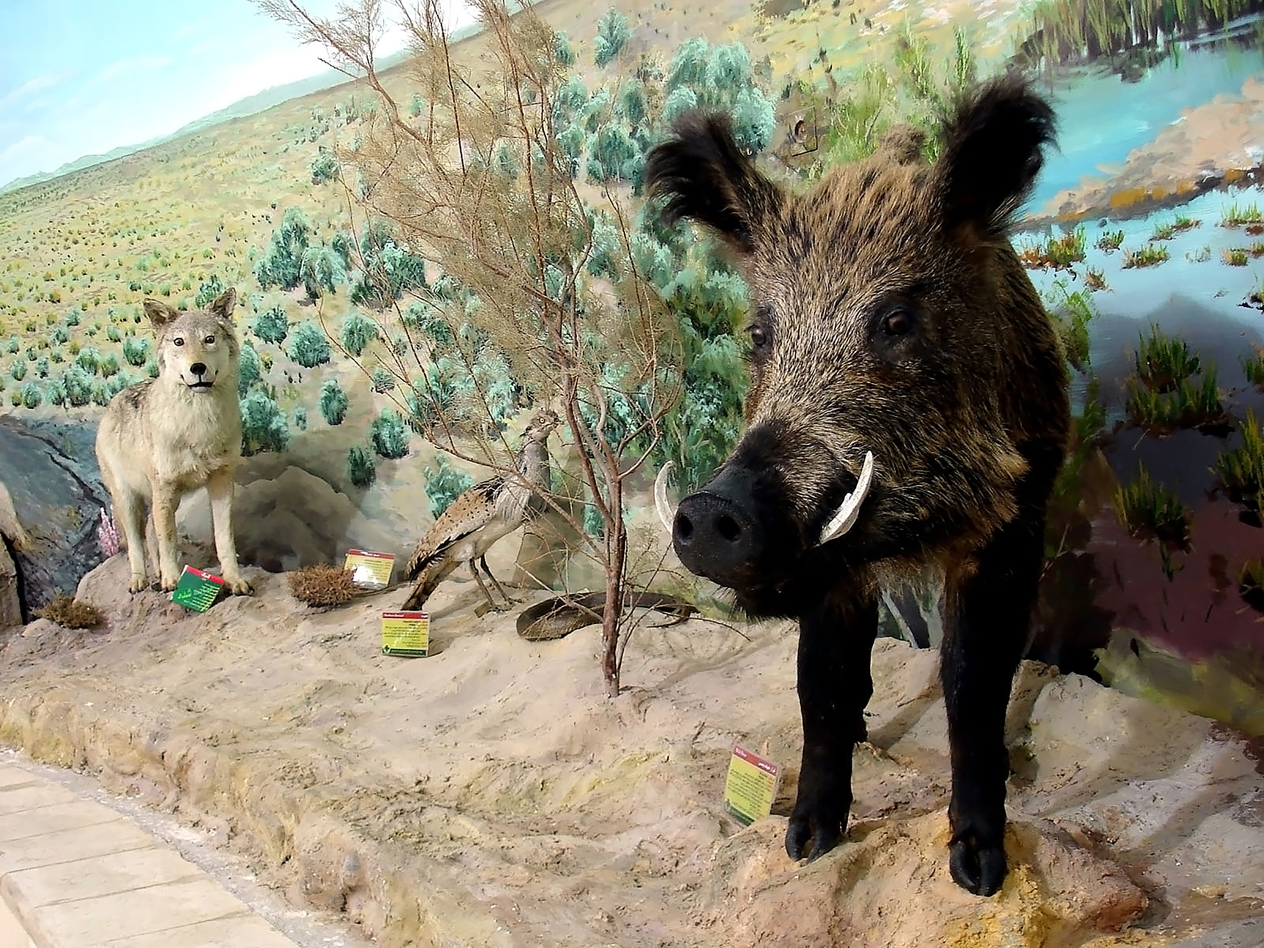 om Province (Persian: استان قم, Ostān-e Qom) is one of the 31 provinces of Iran with 11,237 km², covering 0.89% of the total area in Iran. It is in the north of the country, and its provincial capital is the city of Qom. Acèh: Propinsi Qom nakeuh saboh propinsi nyang na di Iran.